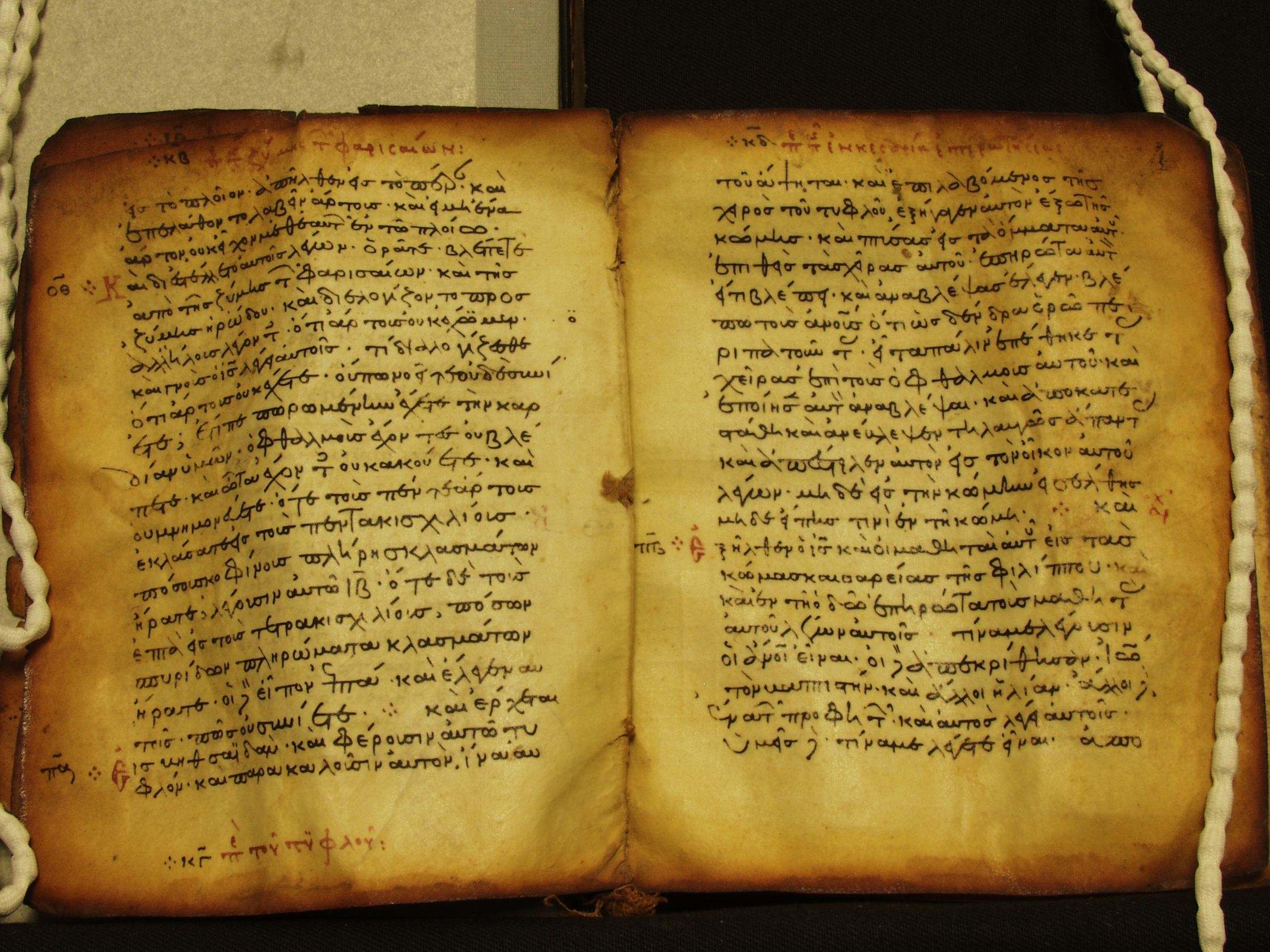 page of the codex with text of Mark 8:13-29